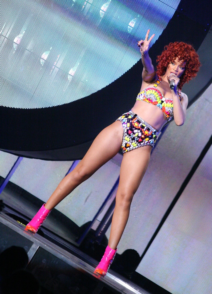 Rihanna Live at Target Center on her LOUD Tour.